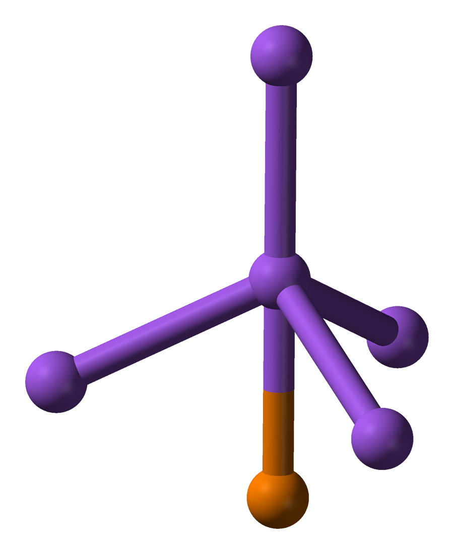 Ball-and-stick model of the coordination of a sodium cation, Na+, by four other sodium cations and a phosphide anion, P3−, in the crystal structure of sodium phosphide, Na3P. X-ray diffraction data from Y. Dong and F. J. DiSalvo (November 2005). "Reinvestigation of Na3P based on single-crystal data". Acta. Cryst. E61 (11): i223-i224.